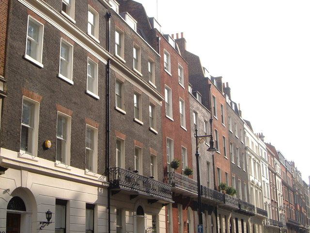 Bolton Street, Mayfair C18 building (with, I think, later stucco) just north of Green Park; seen from the corner of Curzon Street.